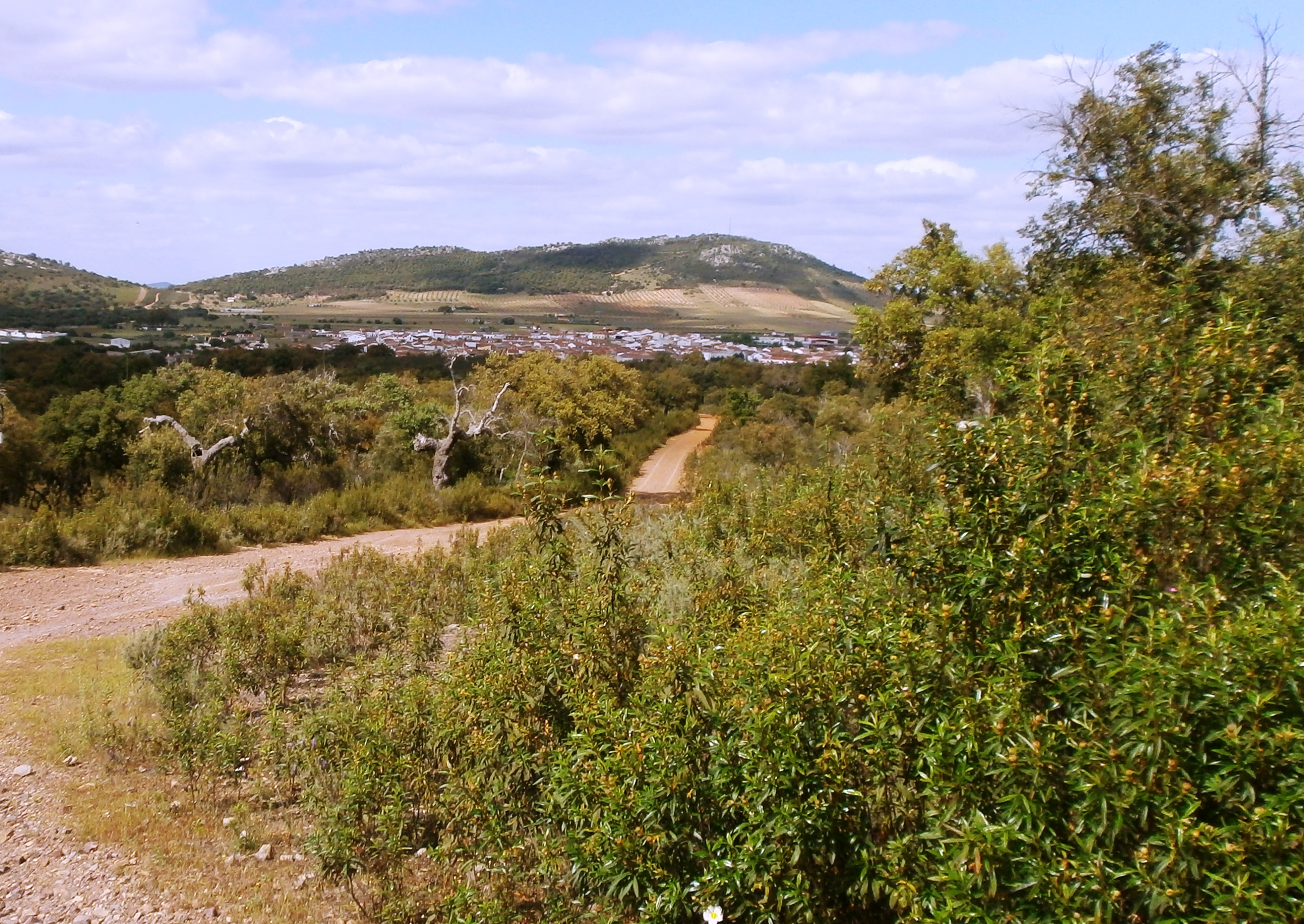 Puebla de Obando, también llamada "El Zángano" desde el puerto del Zángano.